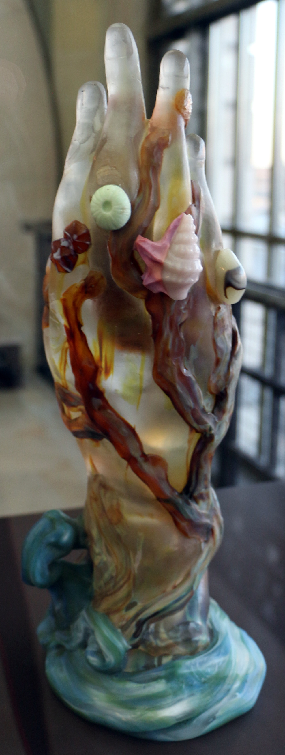 Decorative arts in the Musée d'Orsay